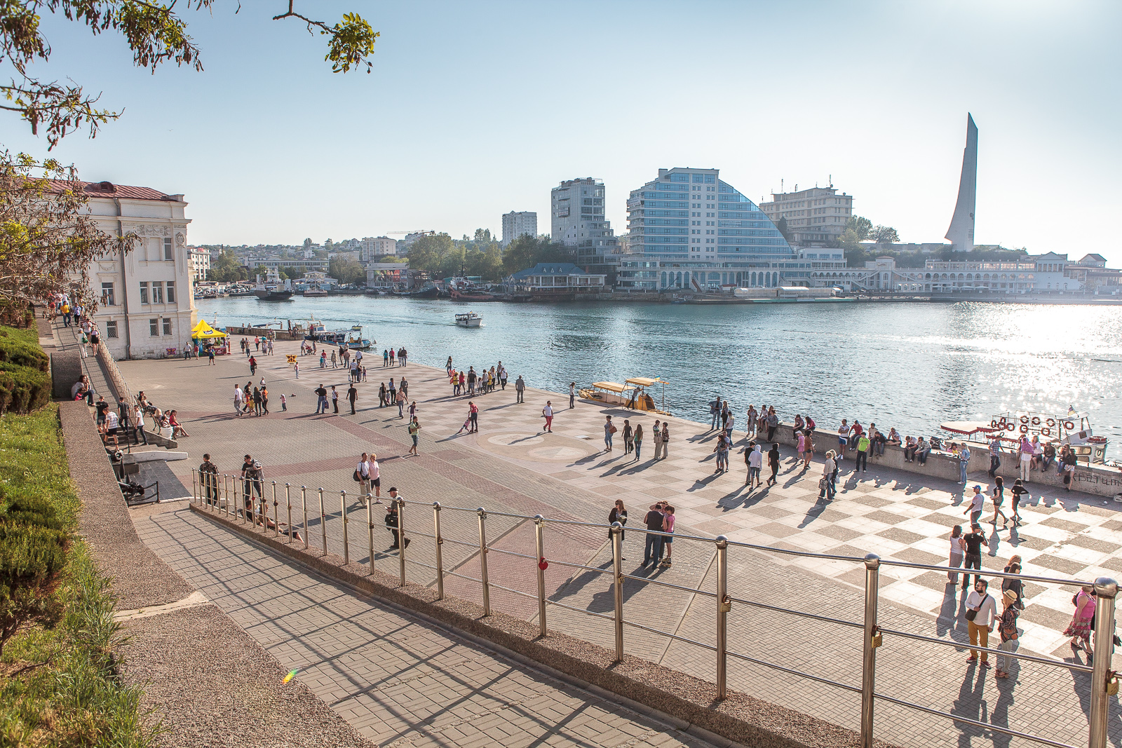 Sevastopol, Crimea, Ukraine